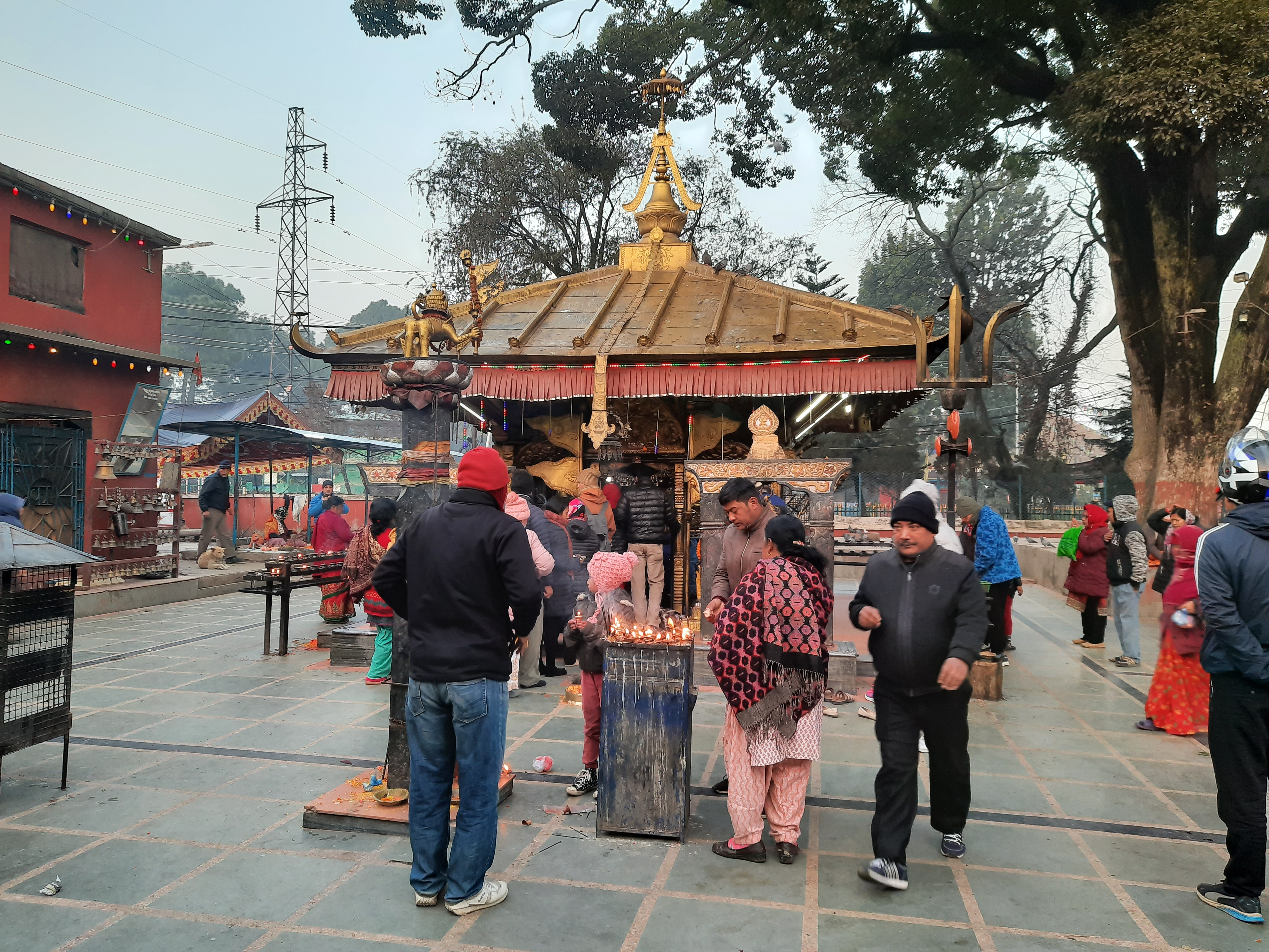 Batuk bhairav is hindu temple located at lagankhel,lalitpur